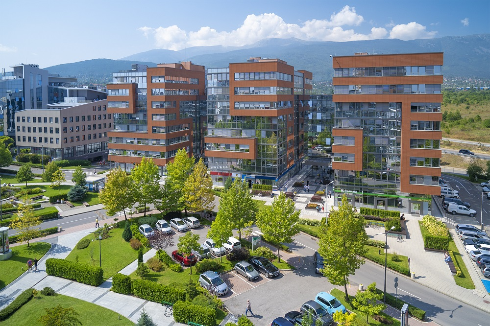 BPS view 2